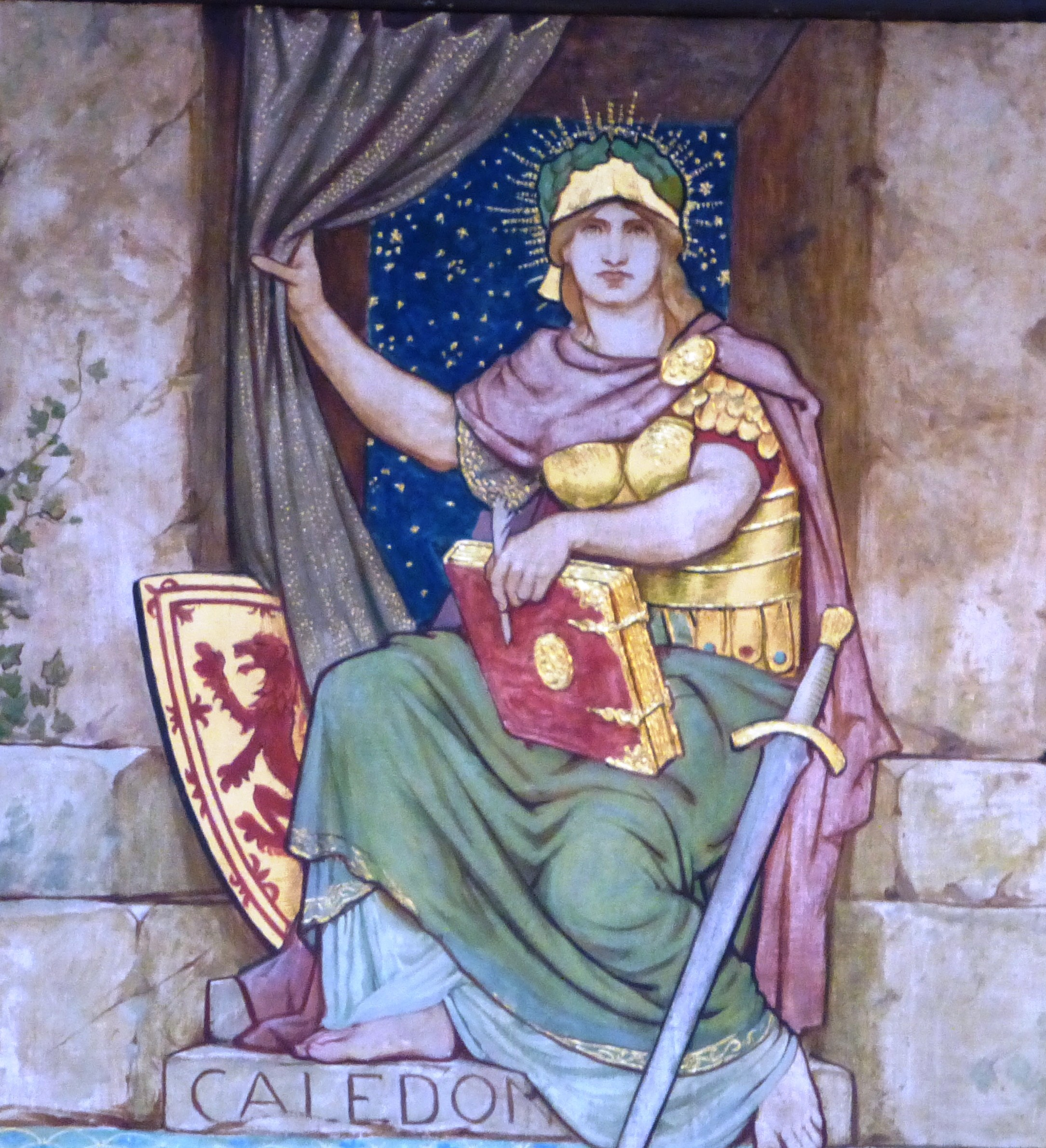 Personification of Caledonia by William Hole